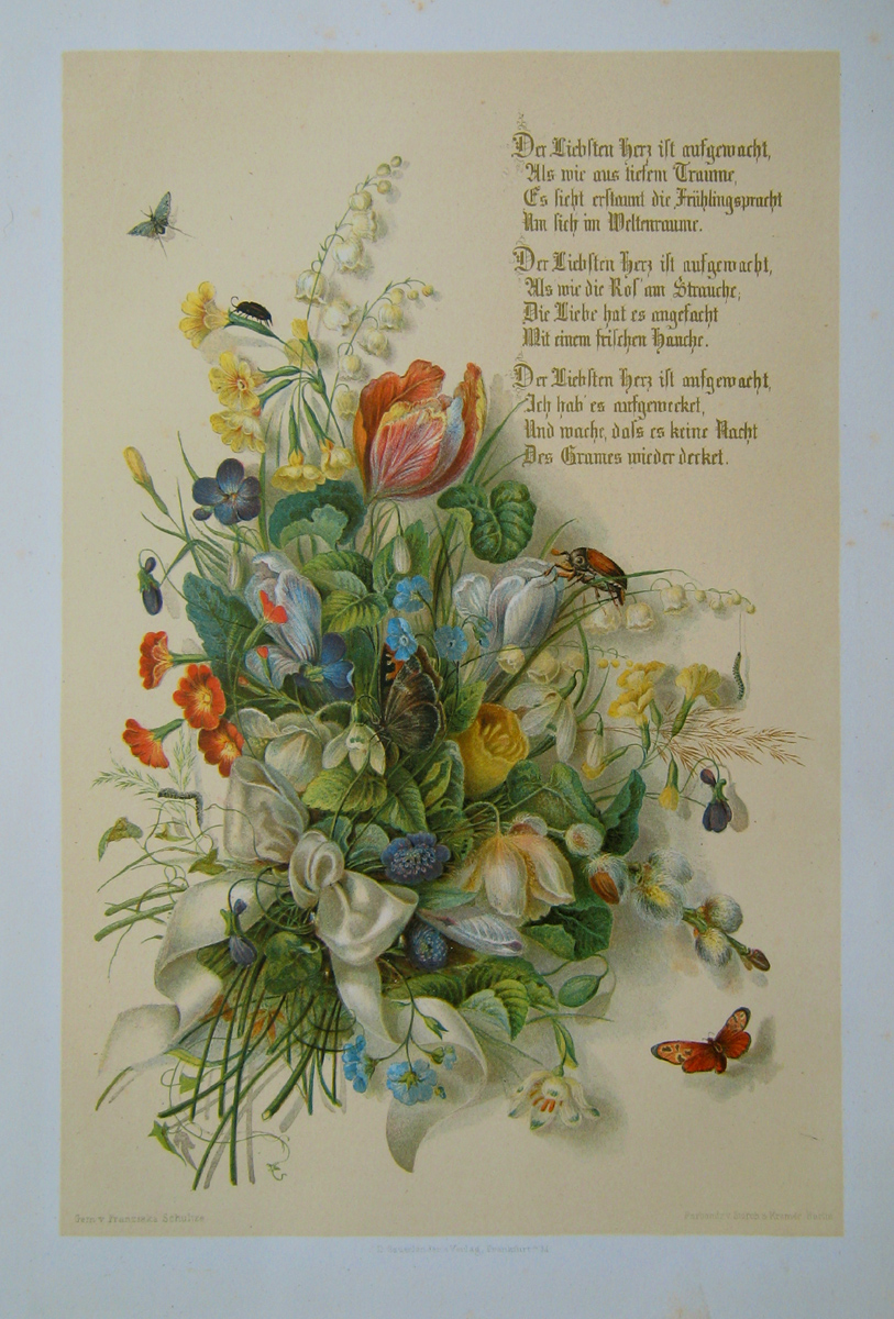 Color lithography from "Liebesfrühling" by Friedrich Rückert